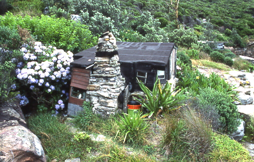 Fisherman's hut, Dobroyd Head, New South Wales.